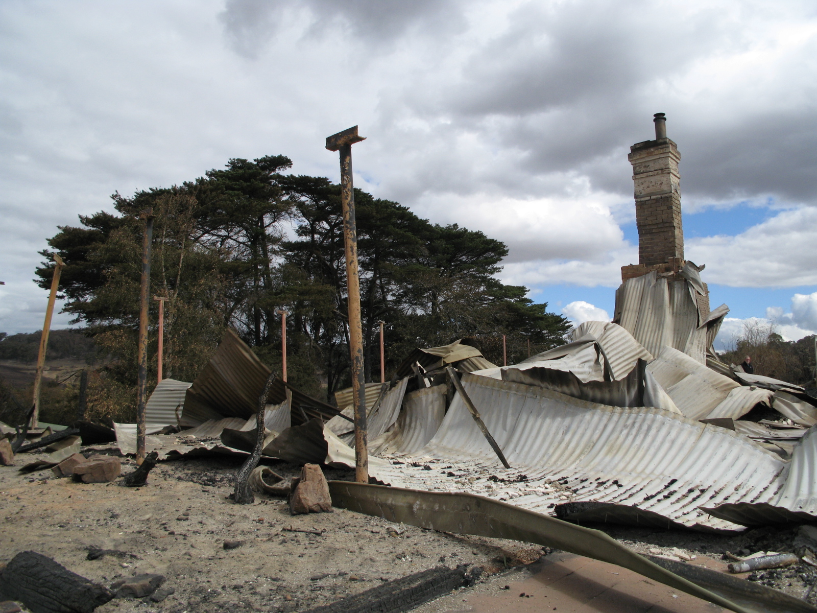 A house damaged by bushfires in the Kinglake complex, in Steels Creek. Photo taken by myself with verbal permission of the owners, 10th of February, 2009.